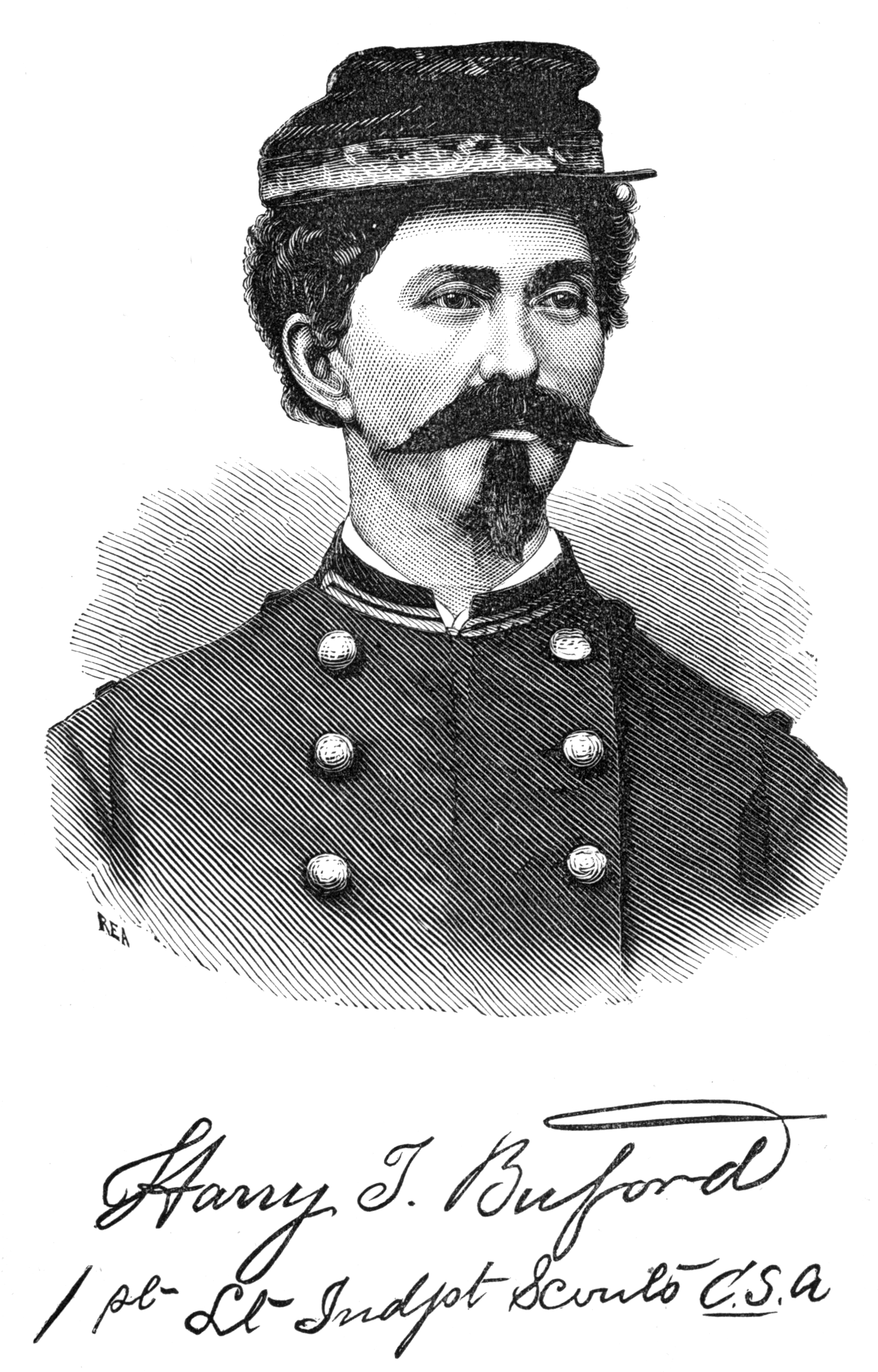 Harry T. Bufford